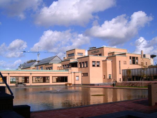 Part of the Kunstmuseum Den Haag in The Hague